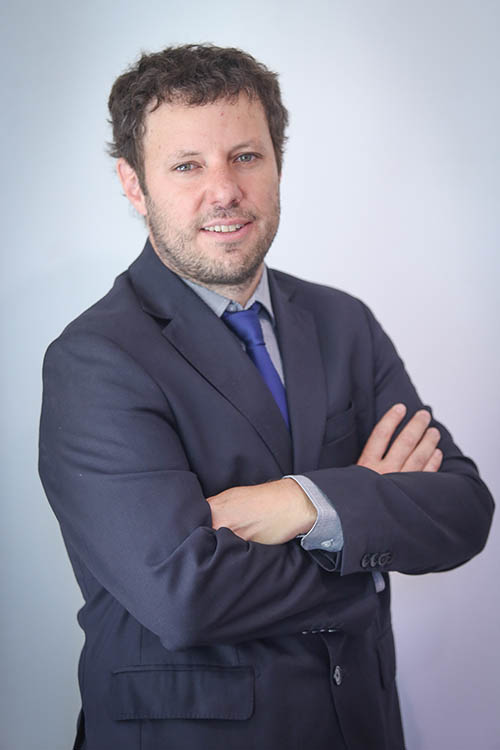 Official photo of Juan Carlos Silva Aldunate as Undersecretary of Cultures and Arts in 2018